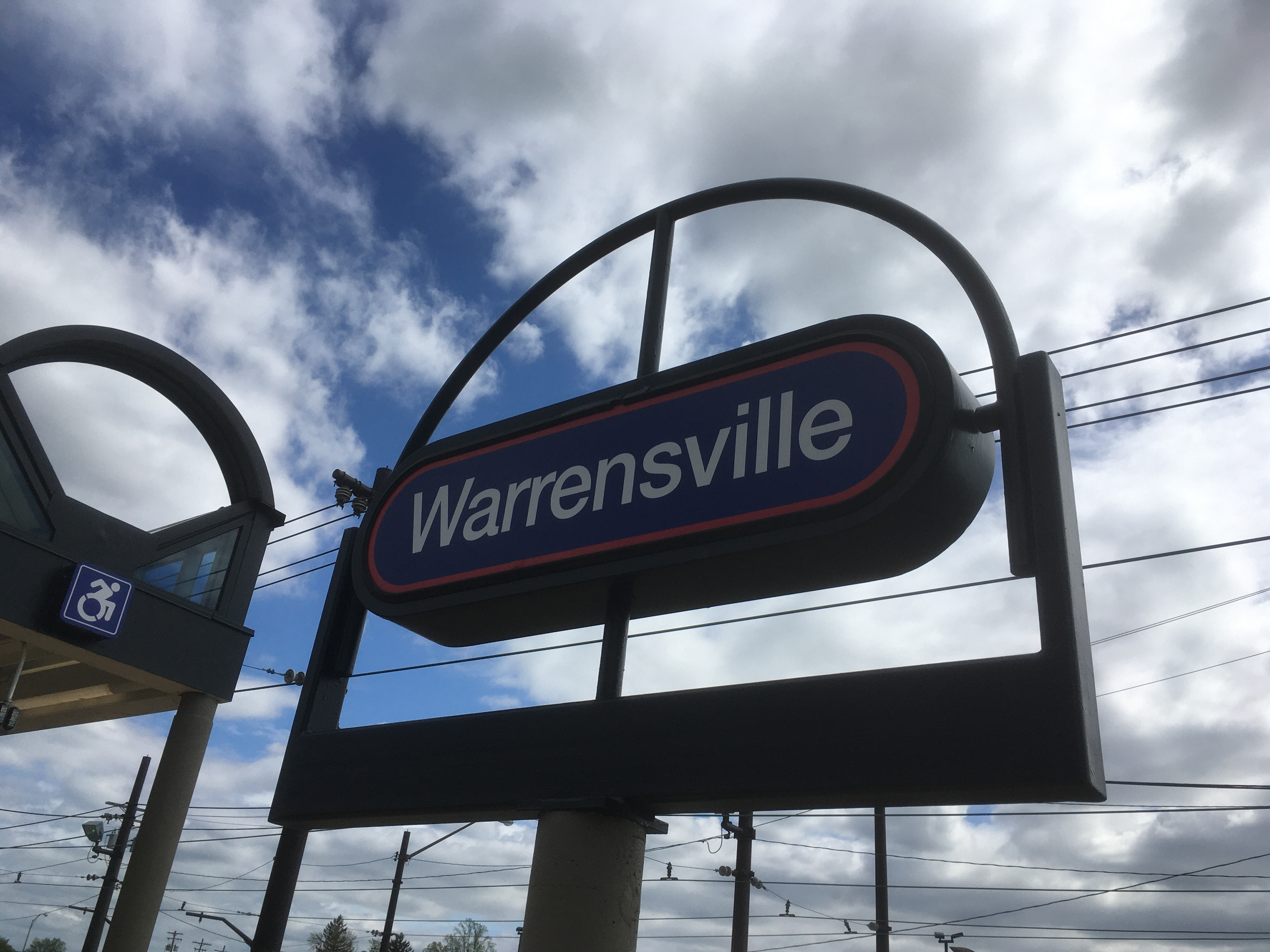 Warrensville-Van Aken 2020 sign